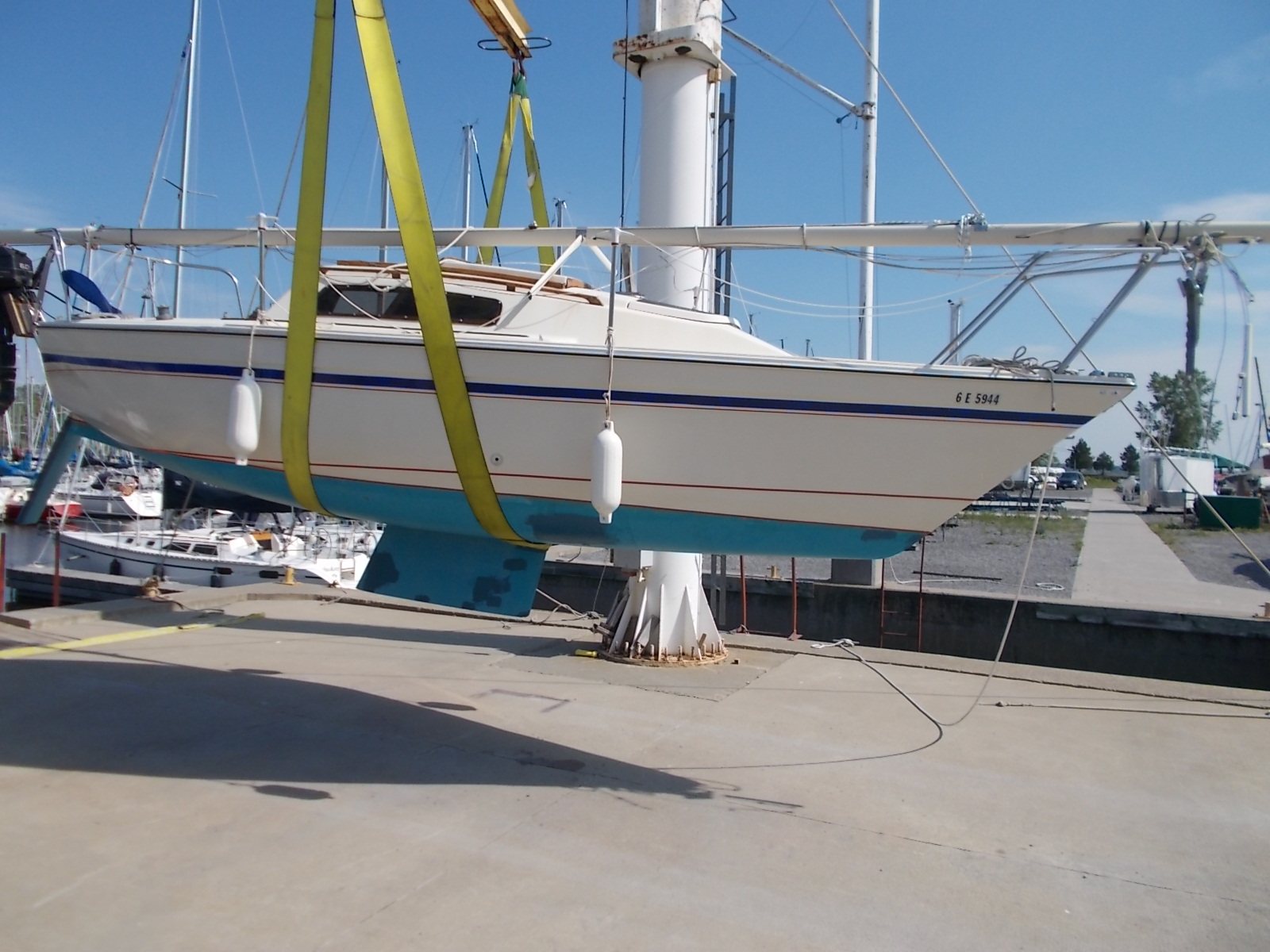 US Yachts US 22 sailboat Vesper on the crane at Nepean Sailing Club, Ottawa, Ontario, Canada. This shows the "shoal keel".